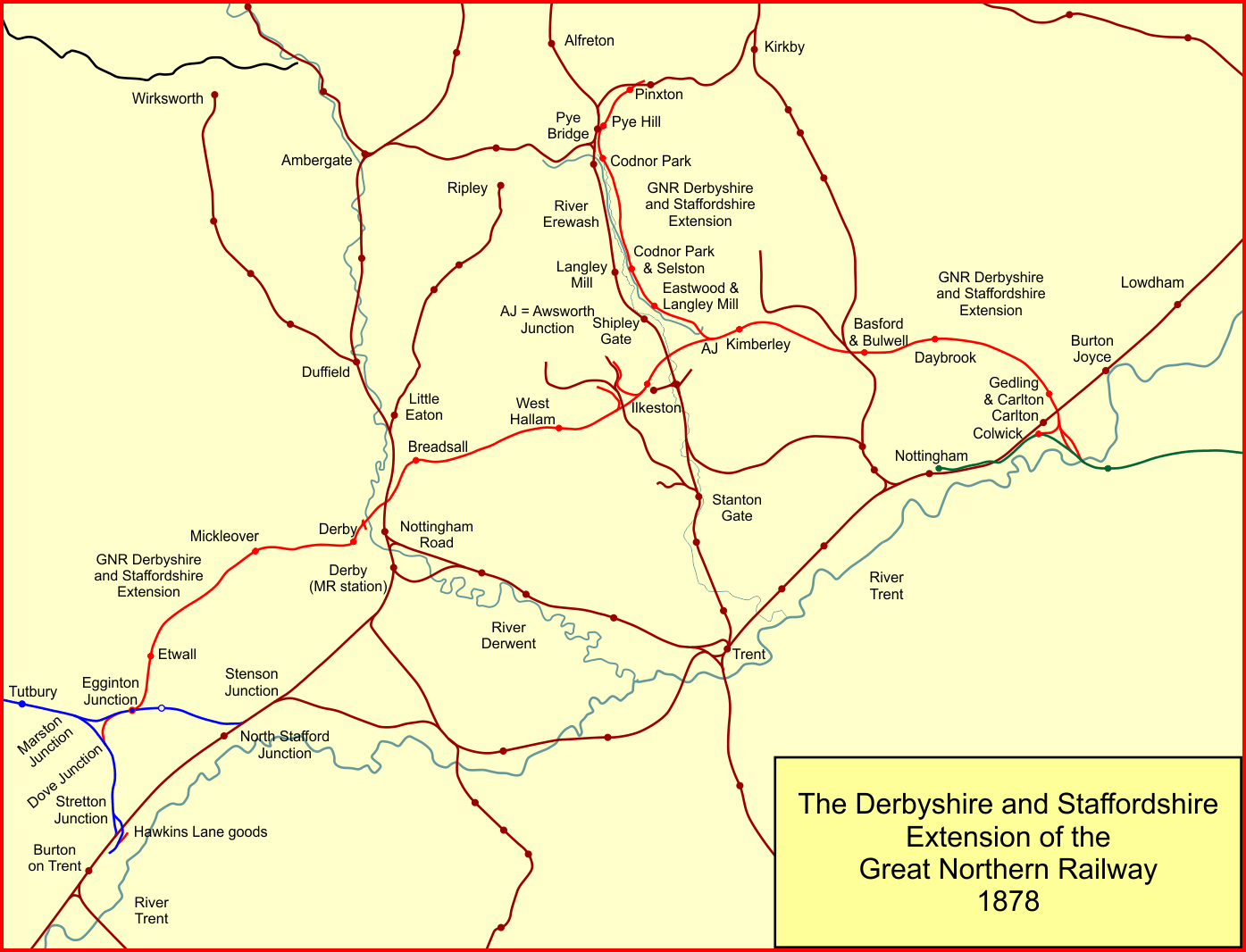 System map of the Derbyshire and Staffordshire Extension Railway of the Great Northern Railway, England, in 1878